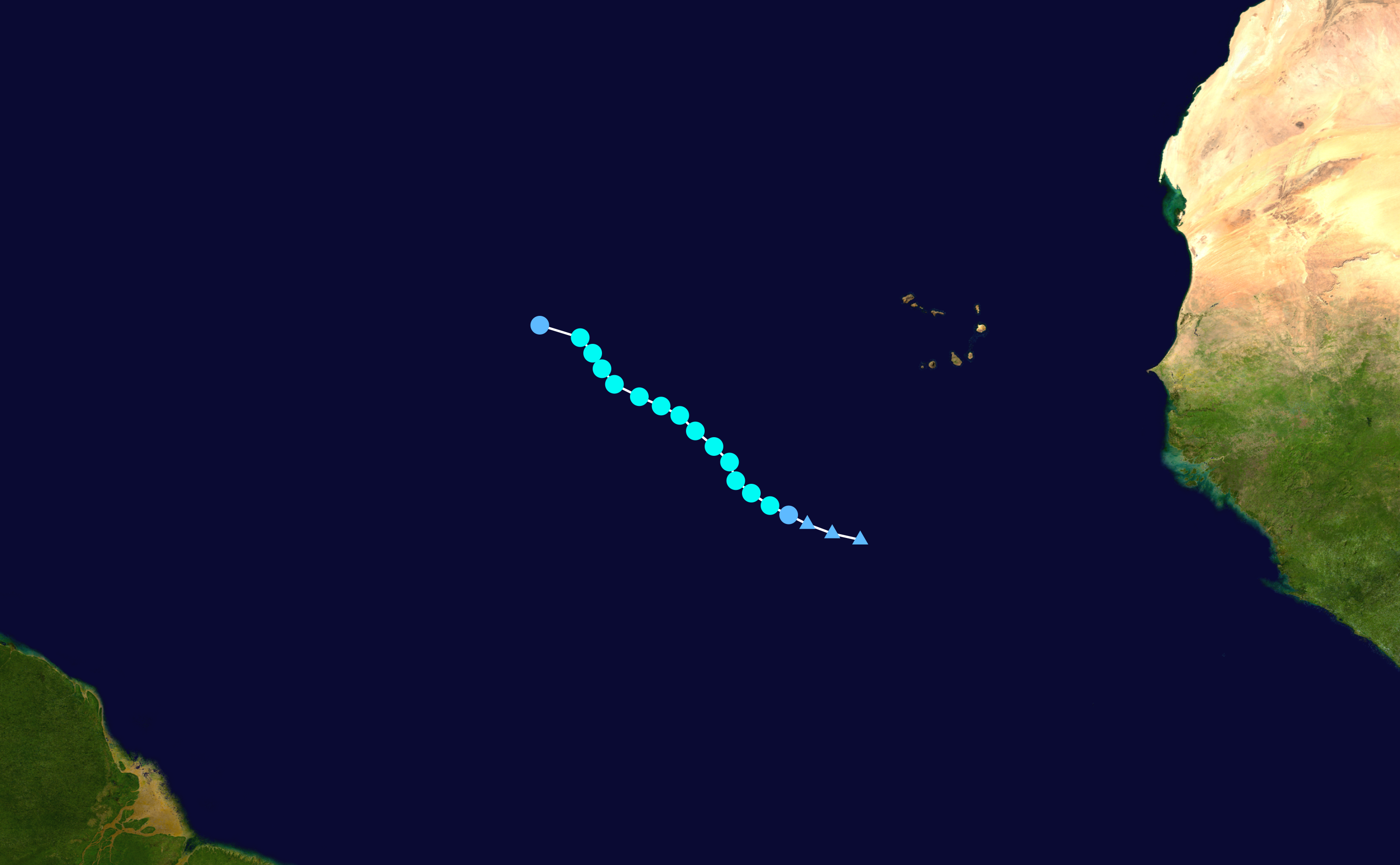 Track map of Tropical Storm Nadine of the 2018 Atlantic hurricane season. The points show the location of the storm at 6-hour intervals. The colour represents the storm's maximum sustained wind speeds as classified in the Saffir–Simpson scale (see below), and the shape of the data points represent the nature of the storm, according to the legend below. Saffir–Simpson scale Tropical depression≤38 mph≤62 km/h Category 3111–129 mph178–208 km/h Tropical storm39–73 mph63–118 km/h Category 4130–156 mph209–251 km/h Category 174–95 mph119–153 km/h Category 5≥157 mph≥252 km/h Category 296–110 mph154–177 km/h Unknown Storm type Tropical cyclone Subtropical cyclone Extratropical cyclone / Remnant low / Tropical disturbance / Monsoon depression